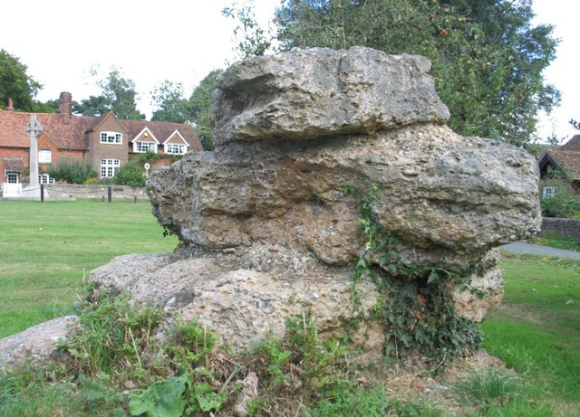 Hertfordshire Puddingstone, Lee, Buckinghamshire These puddingstones are on the village gree outside the Cock and Rabbit public house. Hertfordshire puddingstone is a conglomerate sedimentary rock composed of rounded flint pebbles cemented together by a younger matrix of silica quartz. The distinctive rock is largely confined to the English county of Hertfordshire, and despite a superficial similarity to concrete, is entirely natural. Like other puddingstones, it derives its name from the manner in which the embedded flints resemble the plums in a Christmas pudding. Lee - usually referred to as 'The Lee' - is an attractive village in the Chiltern Hills, about 2 miles north east of Great Missenden and 3 miles south east of Wendover. The village name is Anglo Saxon in origin, meaning 'woodland clearing'. The village church of St John the Baptist is unusual in that it consists of two buildings: the ancient chapel of ease built in the 12th century, which includes a window depicting Oliver Cromwell and John Hampden as 'champions of liberty', and the more modern Victorian red brick church built in 1867.